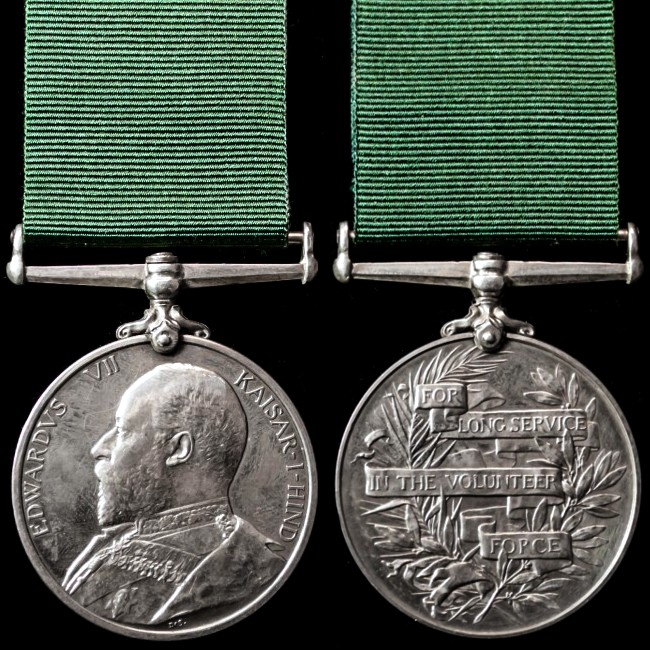 The King Edward VII version of the Volunteer Long Service Medal for India and the Colonies with a single-toe claw suspender mount